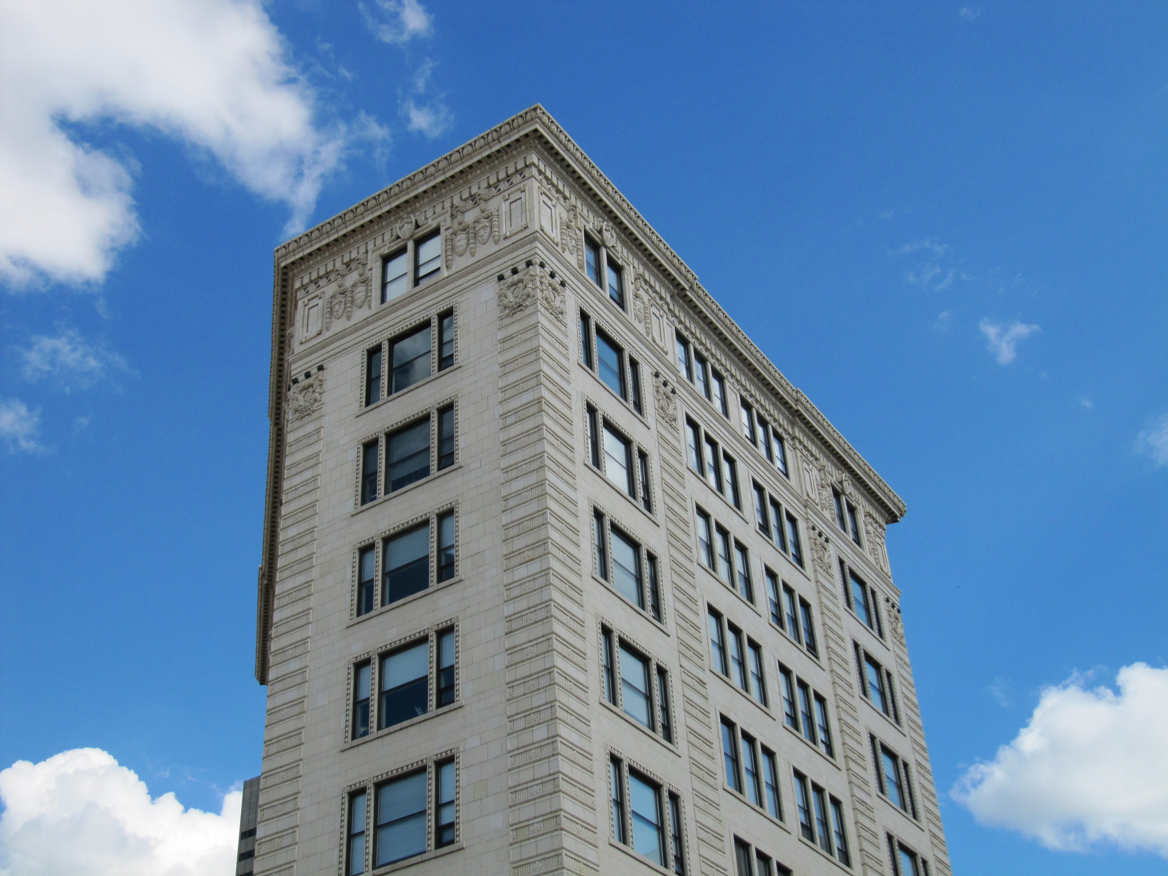 Old office building in downtown Winnipeg